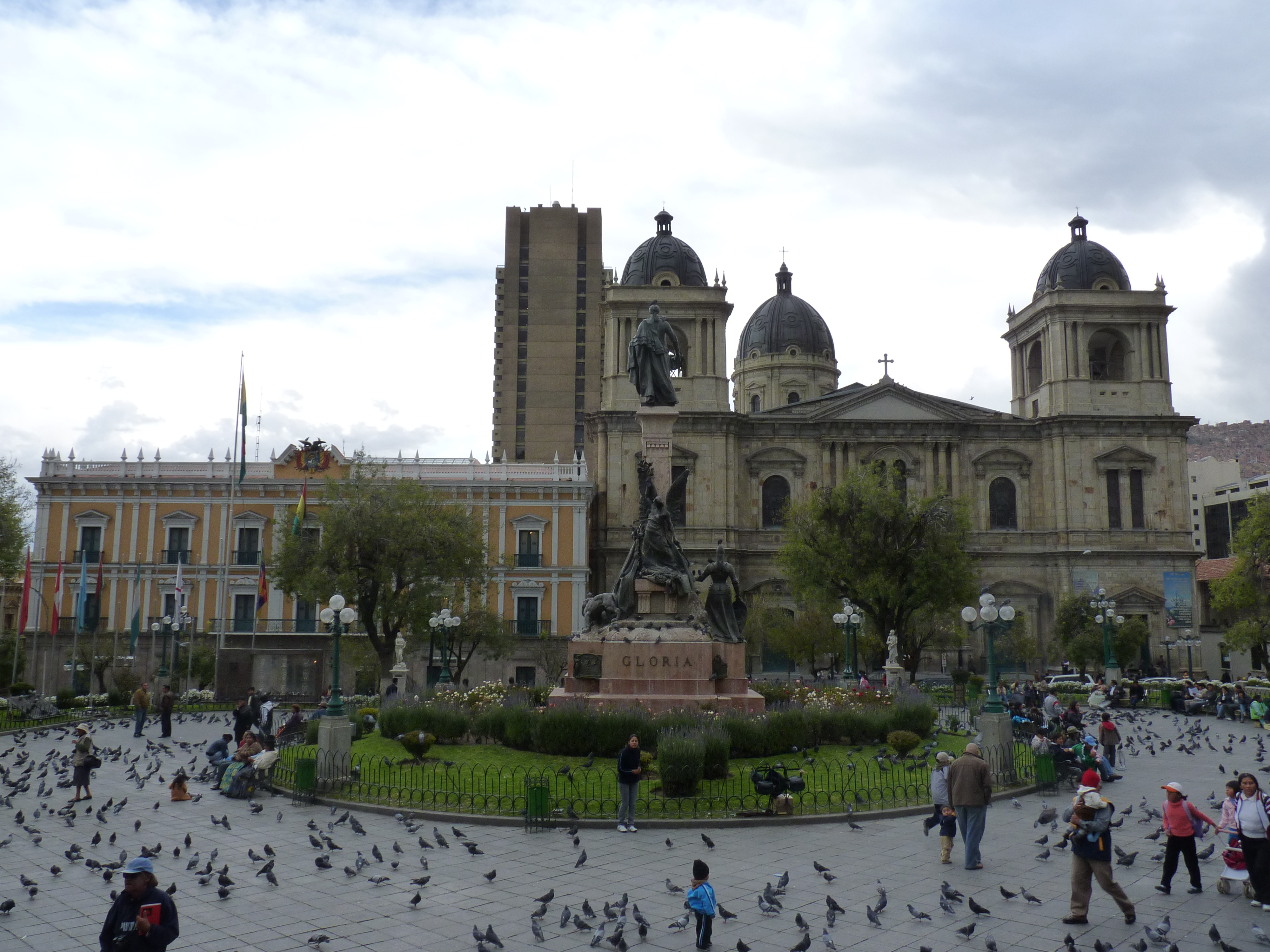 View of the Plaza Murillo in central La Paz, Bolivia, facing the central statue honoring Pedro Murillo, the Presidential Palace (or Palacio Quemado) and Cathedral